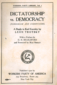 Leon Trotsky - Terrorism and Communism [Dictatorship versus Democracy]: A Reply to Karl Kautsky (1922)